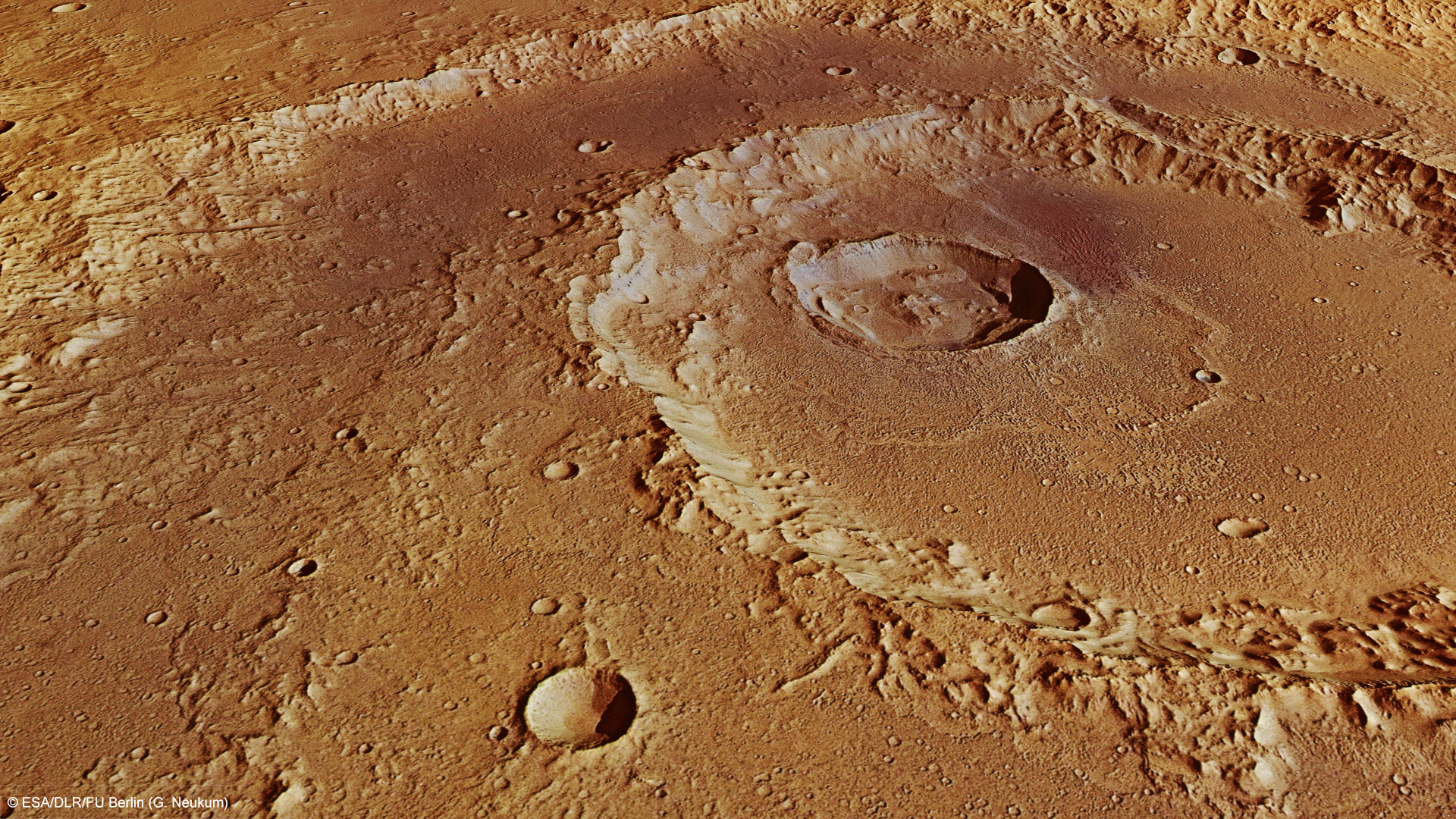 This computer-generated perspective view of Hadley Crater was created using data obtained from the High-Resolution Stereo Camera (HRSC) on ESA’s Mars Express. Centred at around 19°S and 157°E, this image has a ground resolution of about 19 m per pixel. The ejecta blanket emanating from the deep crater in the middle of the image shows evidence for volatiles, possibly water ice, while the main crater rim to the top (south) of the image shows evidence for so-called “mass wasting”. This is a geomorphic process by which surface materials can move down a slope under the force of gravity. In this case, this process made the southern side of the crater shallower than its northern counterpart. For further information, please click here. Credit: ESA/DLR/FU Berlin (G. Neukum), CC BY-SA 3.0 IGO Copyright Notice: This work is licenced under the Creative Commons Attribution-ShareAlike 3.0 IGO (CC BY-SA 3.0 IGO) licence. The user is allowed to reproduce, distribute, adapt, translate and publicly perform this publication, without explicit permission, provided that the content is accompanied by an acknowledgement that the source is credited as 'ESA/DLR/FU Berlin’, a direct link to the licence text is provided and that it is clearly indicated if changes were made to the original content. Adaptation/translation/derivatives must be distributed under the same licence terms as this publication. To view a copy of this license, please visit